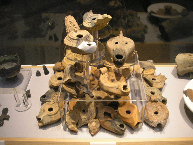 Oil lamps, Byzantine terracotta.